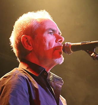 Nik Kershaw in concert, 25/10/13.